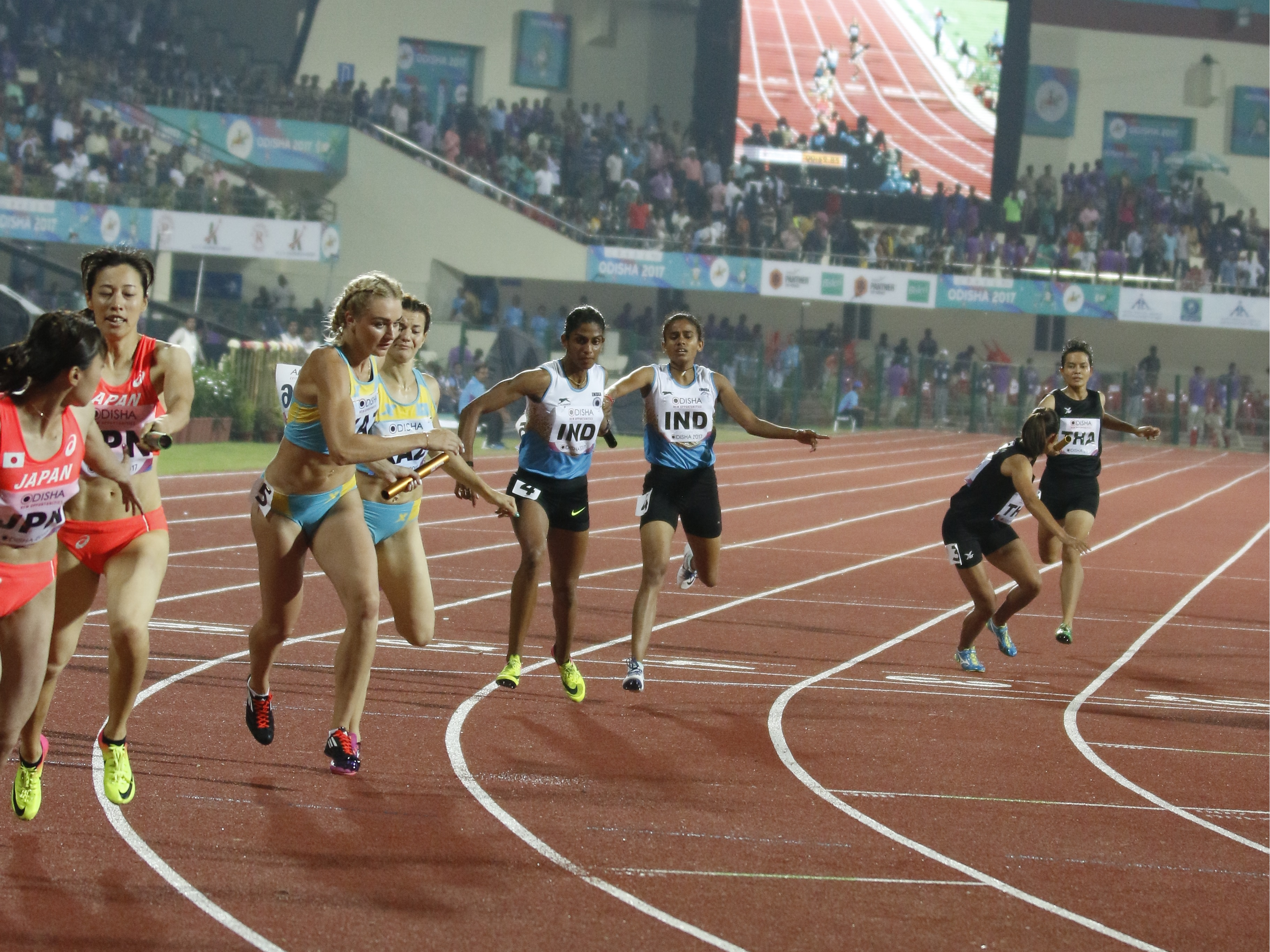 Women's 4x400m Relay Povamma Getting The Baton From Debashree Mazumdar at the 2017 Asian Athletics Championships at the Kalinga Stadium in Bhubaneswar, India